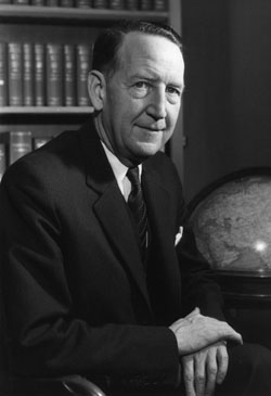 Official portrait of US Ambassador Llewellyn "Tommy" Thompson